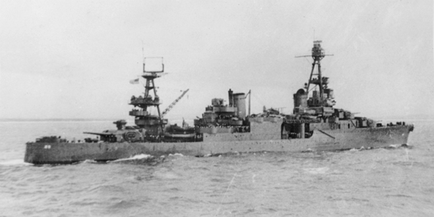 Starboard side view of the U.S. Navy Northampton-class heavy cruiser USS Chicago (CA-29) in the waters off Guadalcanal Island, 7-9 August 1942.